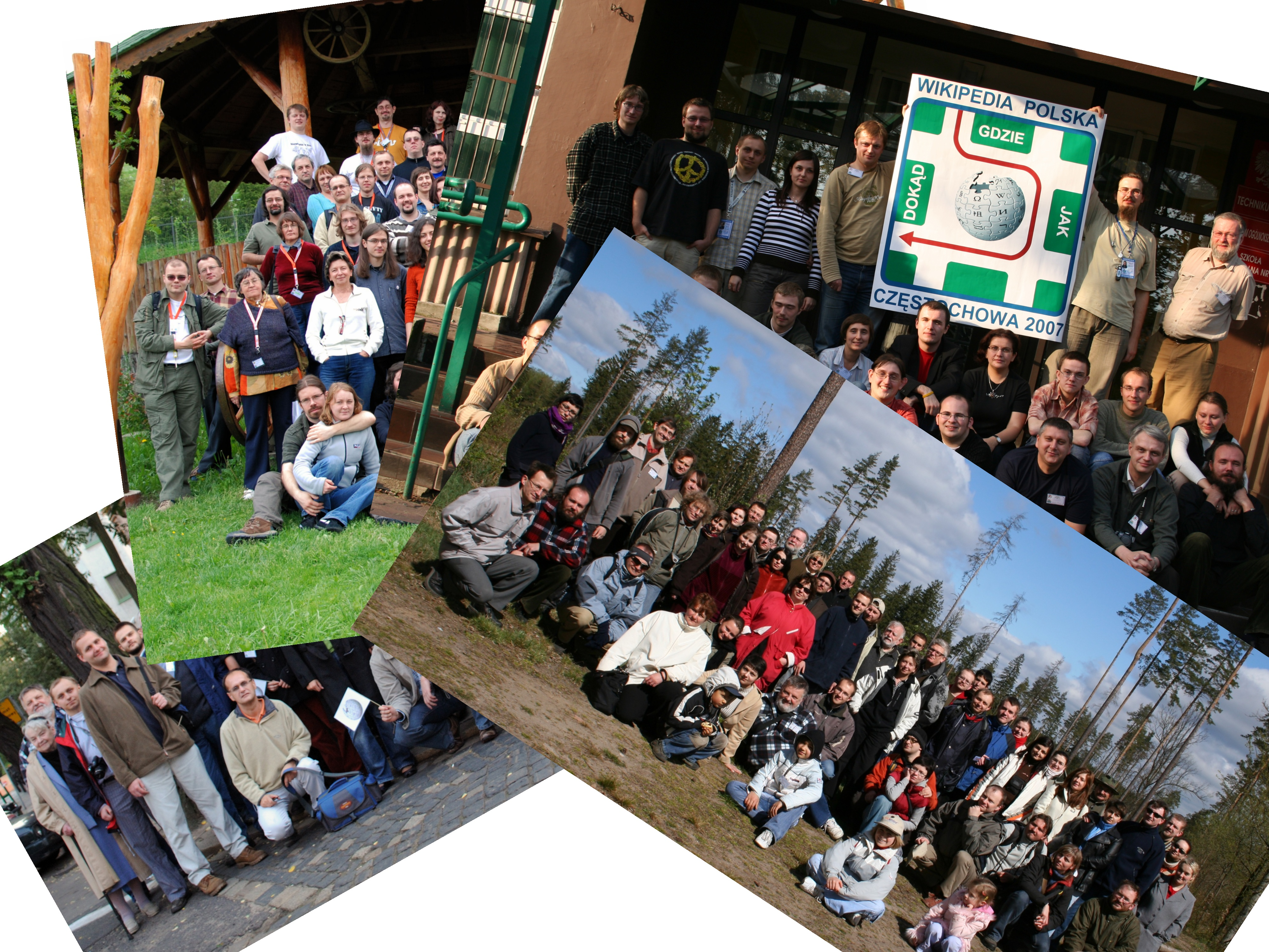 Wikimedians meetaups in Poland